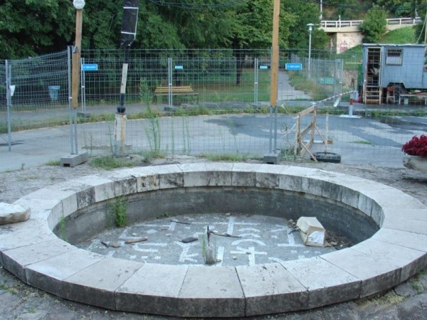 Reservoir is in summer, Budapest